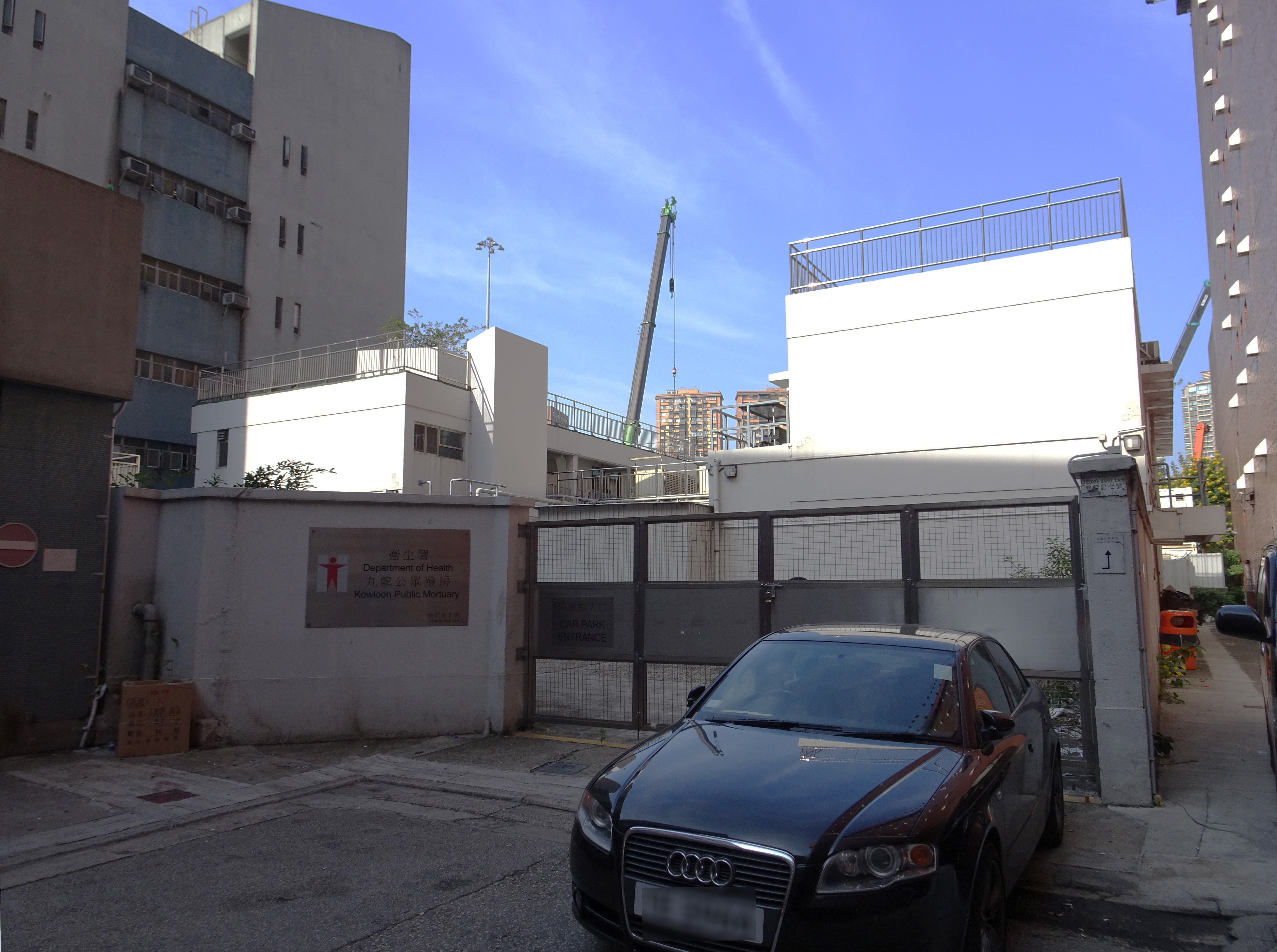 Kowloon Public Mortuary in Hung Hom, Hong Kong.